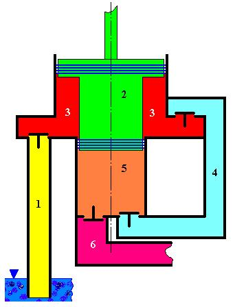 two stages of piston pump